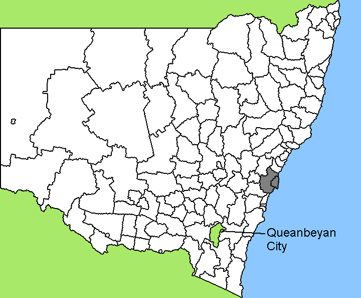 Map of New South Wales/Australia, LGA of the City of Queanbeyan highlighted